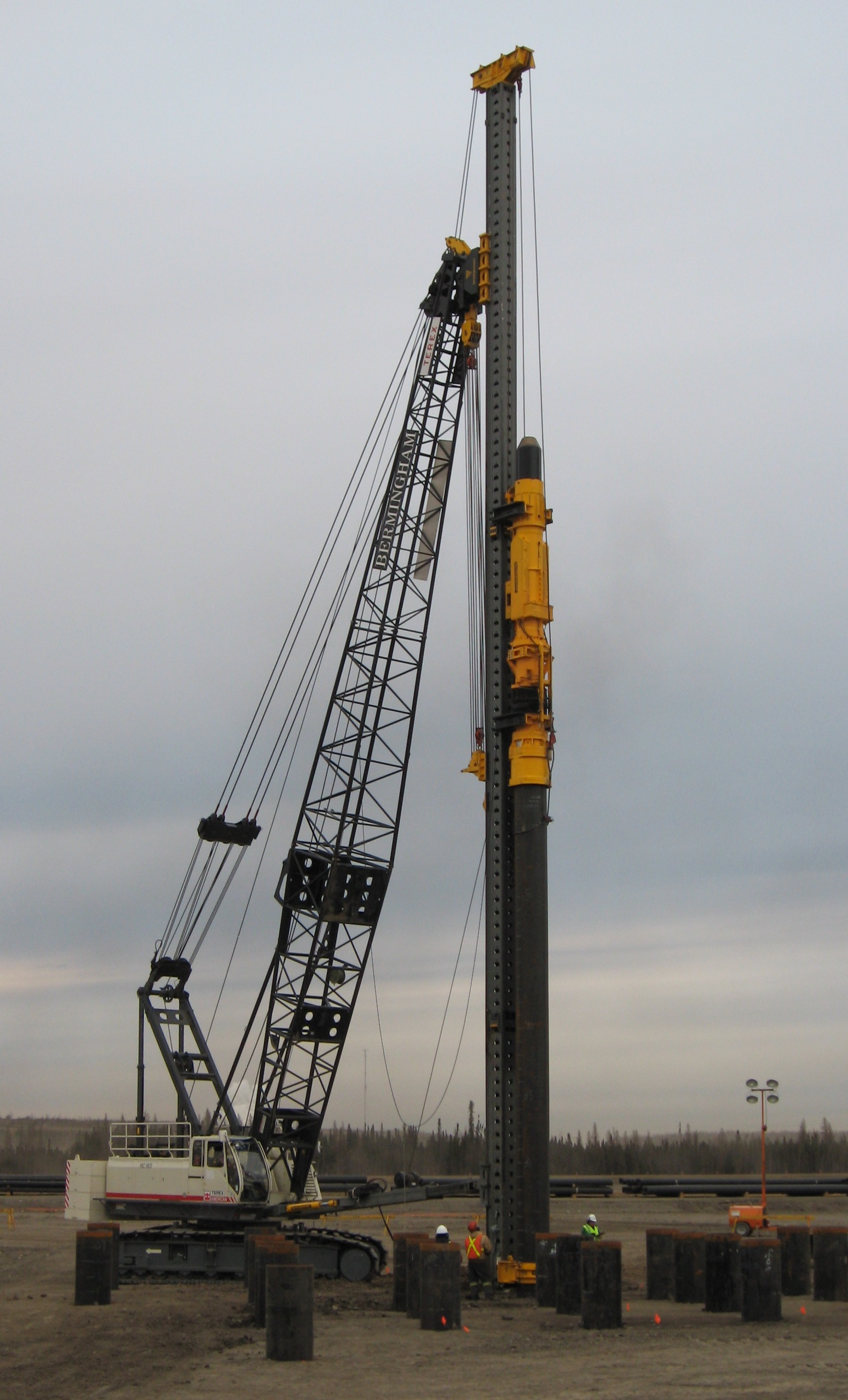 Berminghammer B6505 Diesel Impact Hammer Driving 30-in Pipe Piles